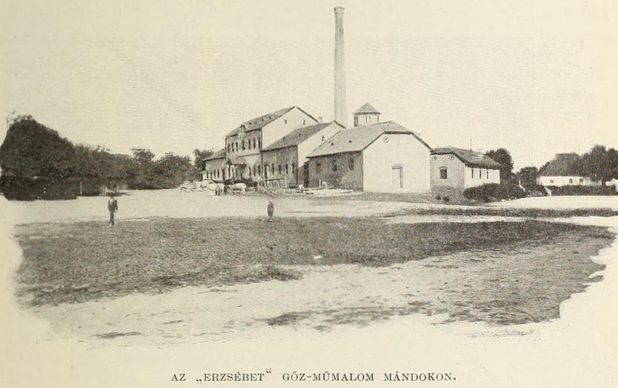 Steam mill, Mándok